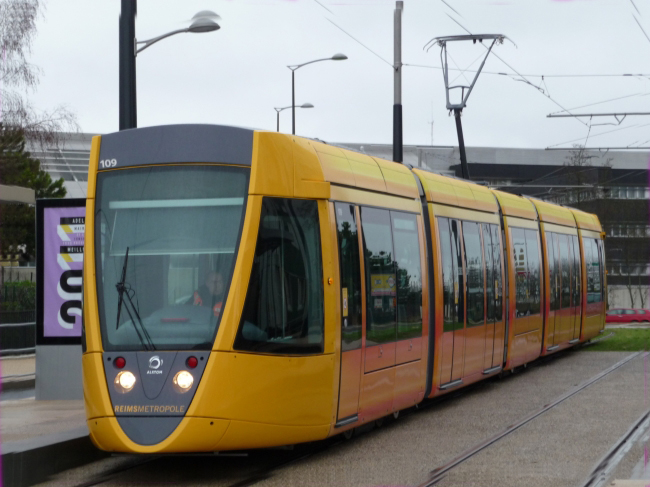 A lemon tram of reims